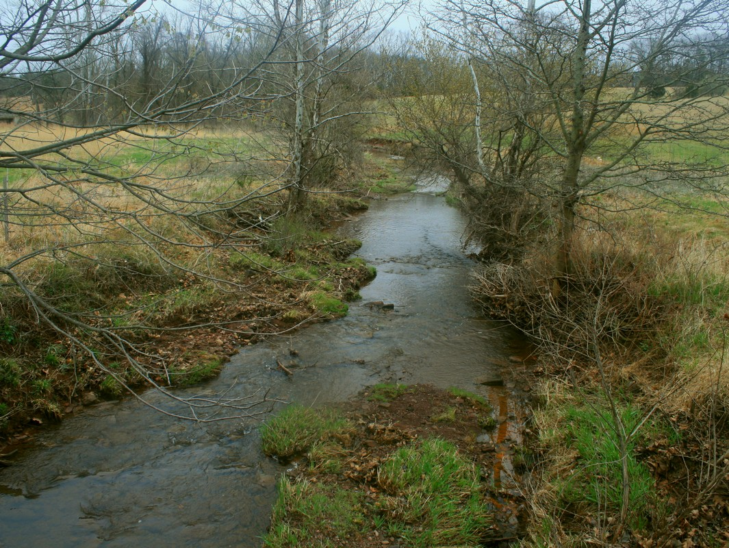 Yong's Branch river, view from Manassas-Sudley road